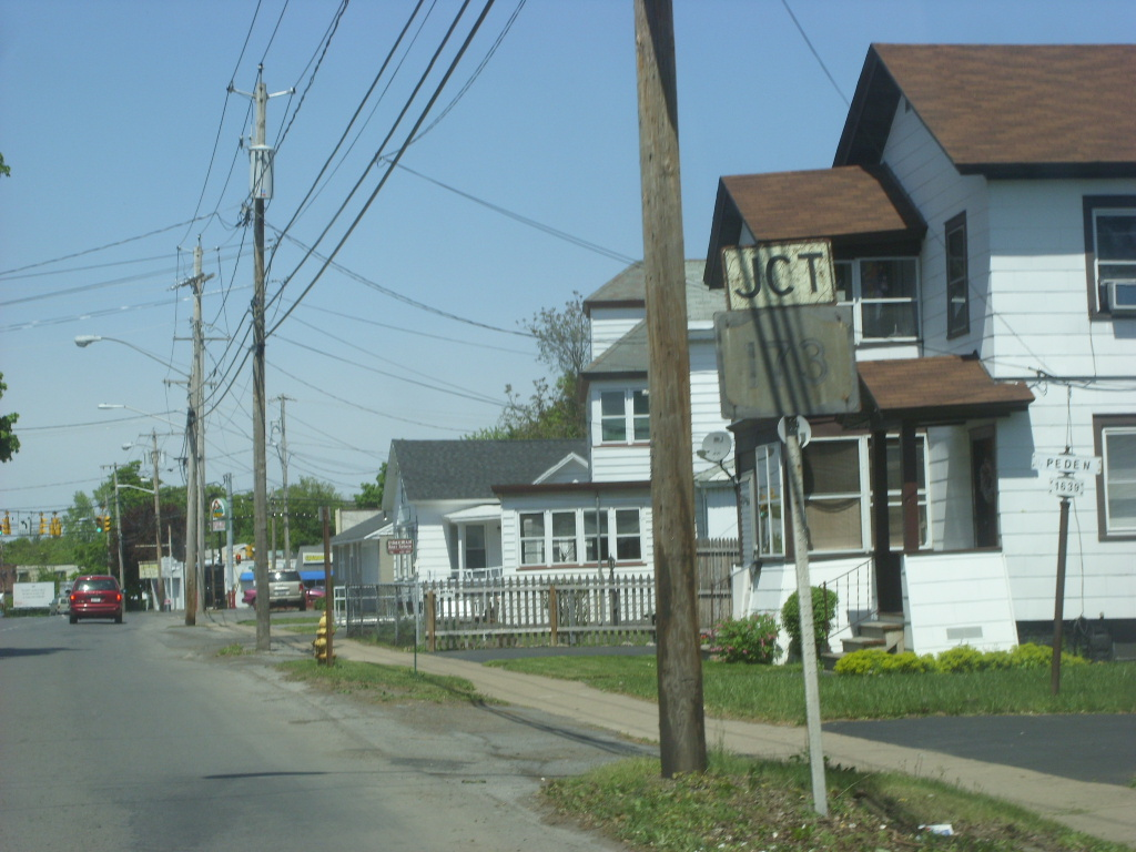 New York State Route 80 at the intersection with New York State Route 173, with old signage visible.